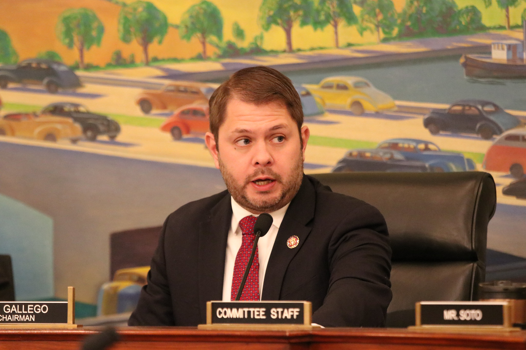 Today @NRDems passed my Tribal Wildlife Corridors Act alongside @RepDonBeyer’s Wildlife Corridors Conservation Act. These bills are critical to protecting wildlife & respecting our govt-to-govt relationship with Tribes.